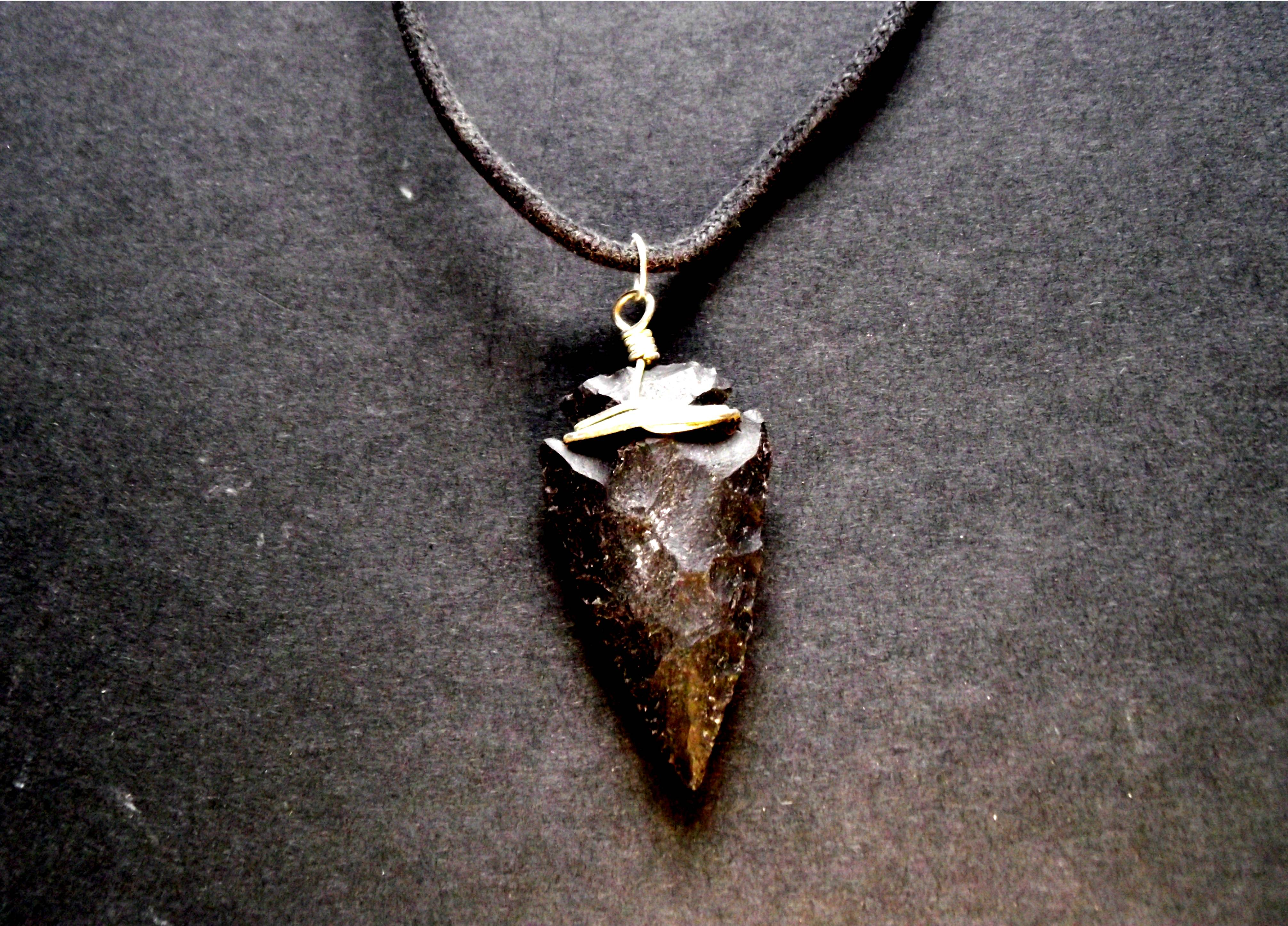 From Mal Corvus Witchcraft & Folklore artefact private collection owned by Malcolm Lidbury (aka Pink Pasty) Witchcraft Tools